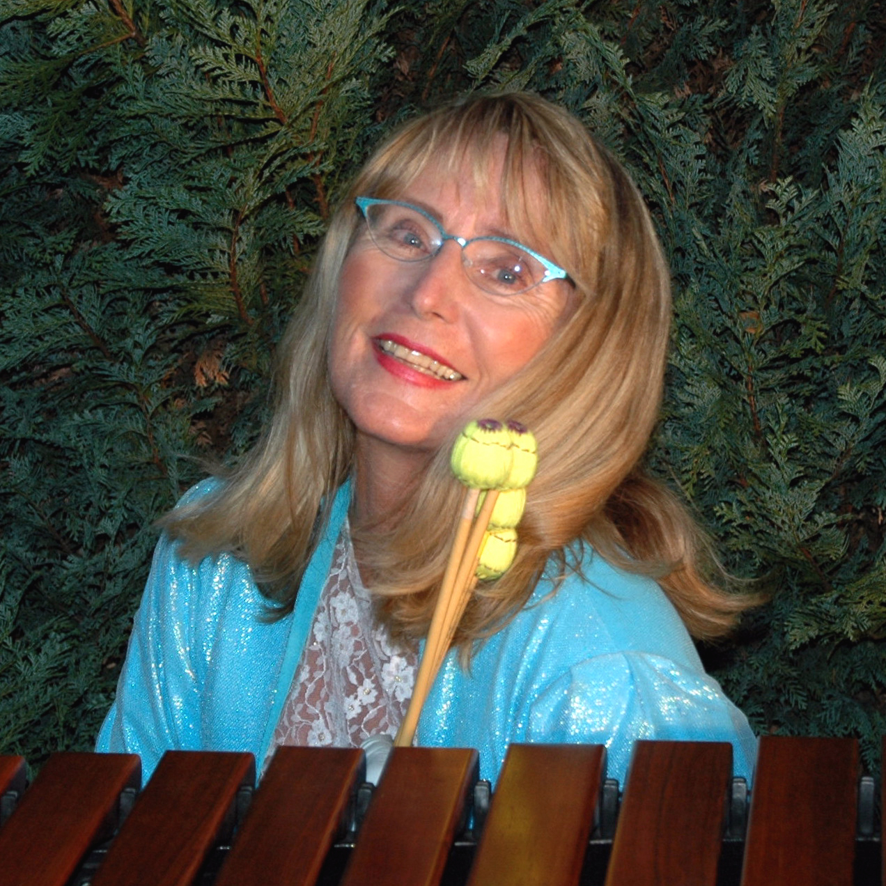 Elsabeth Amandi, a German Marimba player